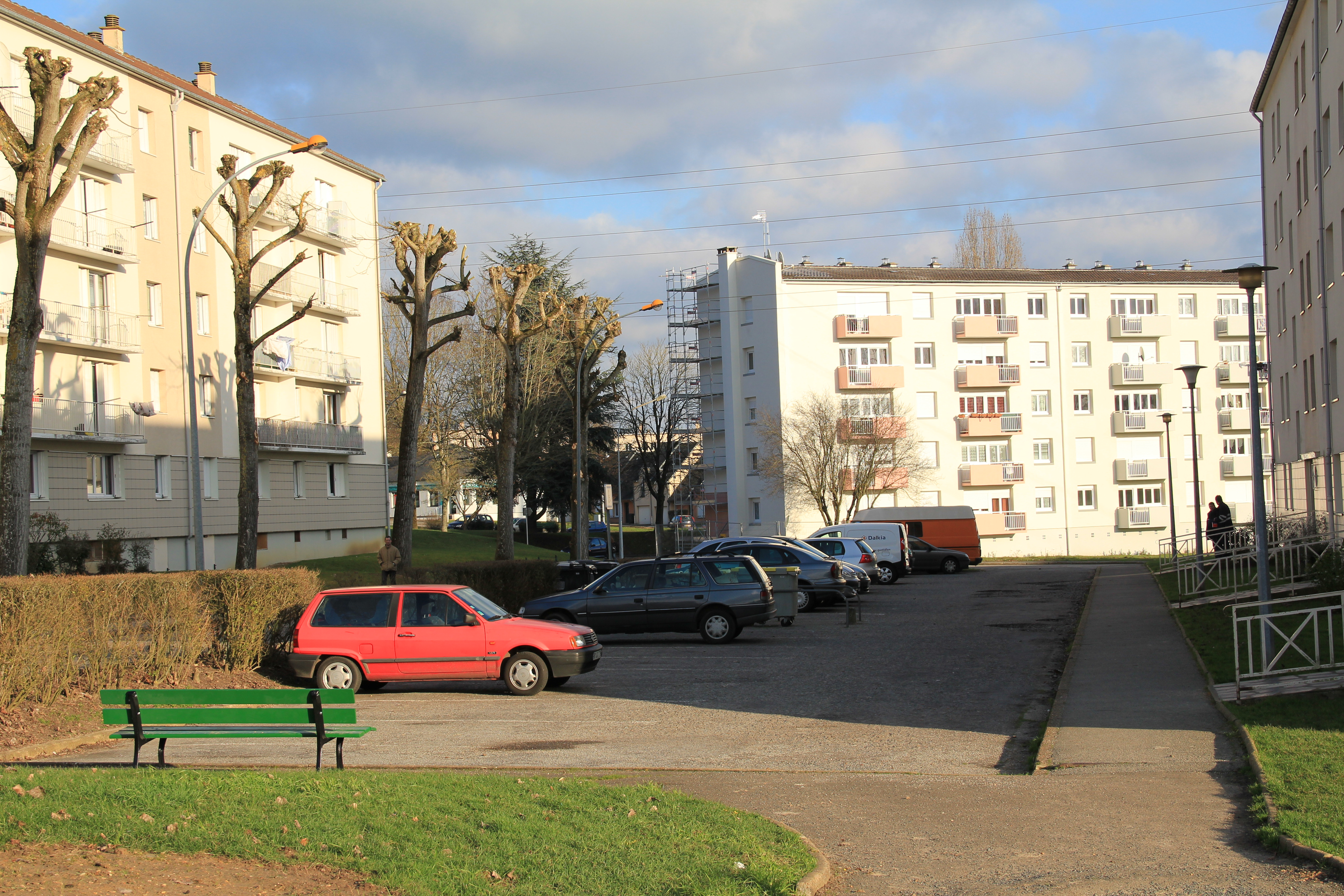 Housing estate in Nogent-le-Rotrou, Eure-et-Loir, France.